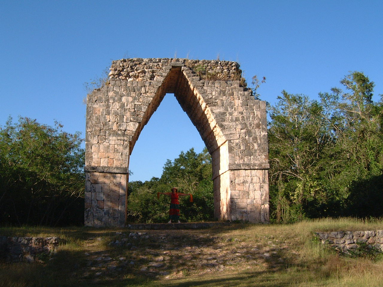 Corbelled arch at the end of the Sacbé, Kabah, Yucatán, Mexico